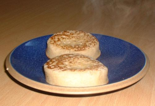 Hot, buttered crumpets